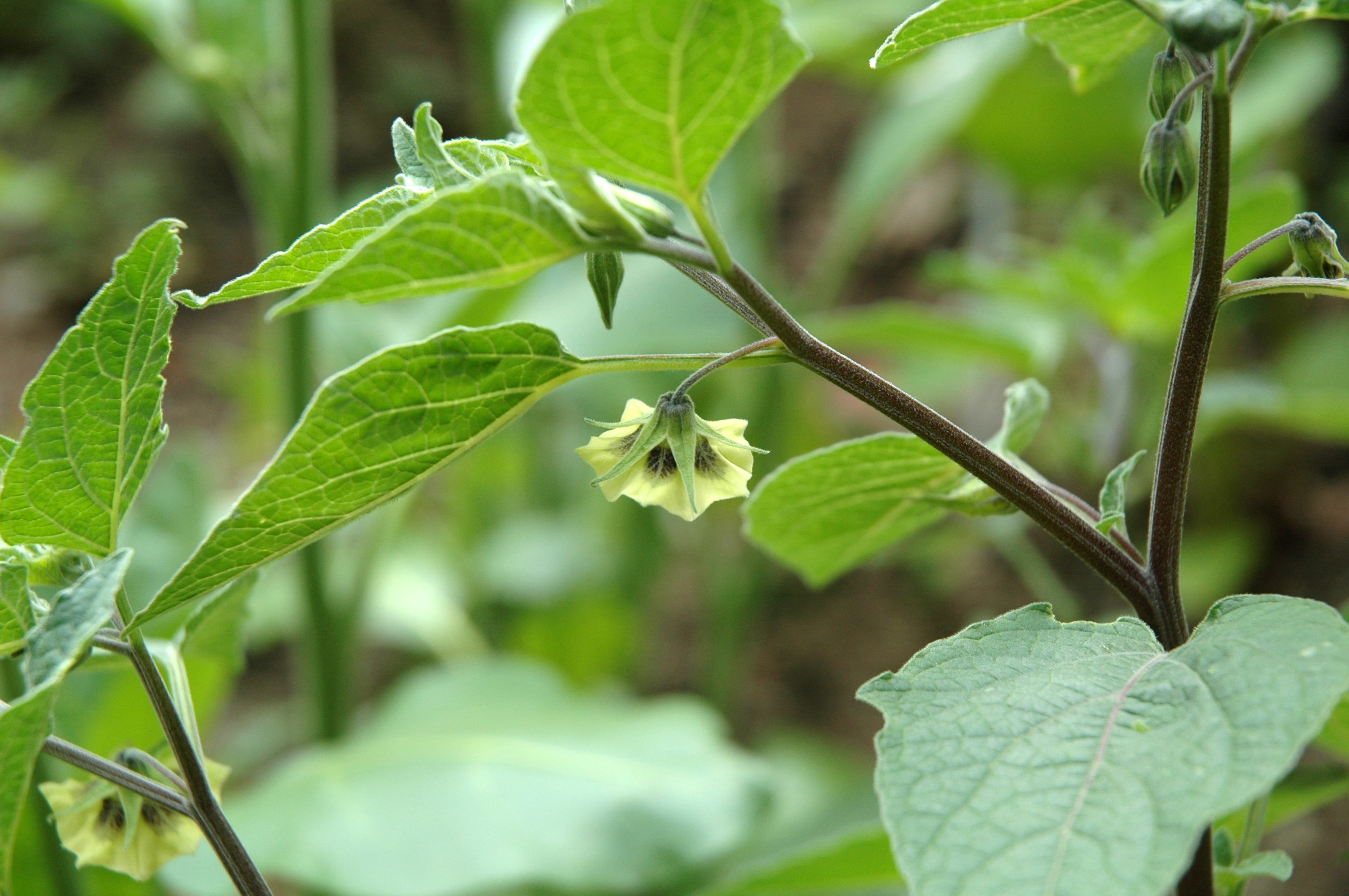 Back view of a flower of Physalis coztomatl at Erlangen Botanical Garden, Germany